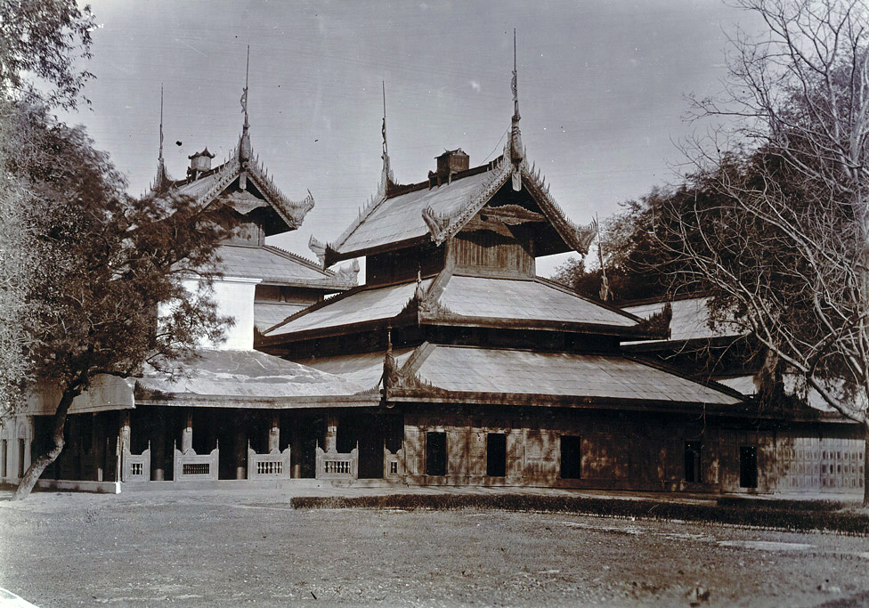 Photograph of the Chief Queen’s apartments in the Nandaw (Royal Palace) at Mandalay in Burma (Myanmar), from the Archaeological Survey of India Collections: Burma Circle, 1903-07. The photograph was taken by an unknown photographer in 1905 under the direction of Taw Sein Ko, the Superintendent of the Archaeological Survey of Burma at the time. This is a view of the wooden pavilions occupied by the Chief Queen of the Burmese monarchy. The last queen to occupy them was Supayalat, royal consort of Thibaw (reigned 1878-1885) the last king of Burma. They were exiled to India when Thibaw formally surrendered to the British in 1885 following the Third Burmese War, which culminated in the annexation of Upper Burma. The apartments were situated in the heart of the Royal Palace next to the Glass Palace, occupied by the King, in the middle of a sequence of state rooms leading from the Great Hall of Audience on the east face of the palace, which faced the main city gate of Mandalay, towards the more private women’s apartments occupied by queens of various rank at the western end. This arrangement followed the Burmese tradition of building palaces on an east-west axis. The pavilion is crowned with a tiered roof, a symbolic form demarcating sacred space which was restricted to royal and religious architecture. The Royal Palace stood at the centre of Mandalay, a walled city founded in 1857 which became Burma’s last great royal capital. It was one of the first buildings to be constructed, re-using many parts of the teak buildings from the former capital Amarapura. The original palace was destroyed by fire during Allied bombing raids in 1945 during the Second World War but has since been partially reconstructed.